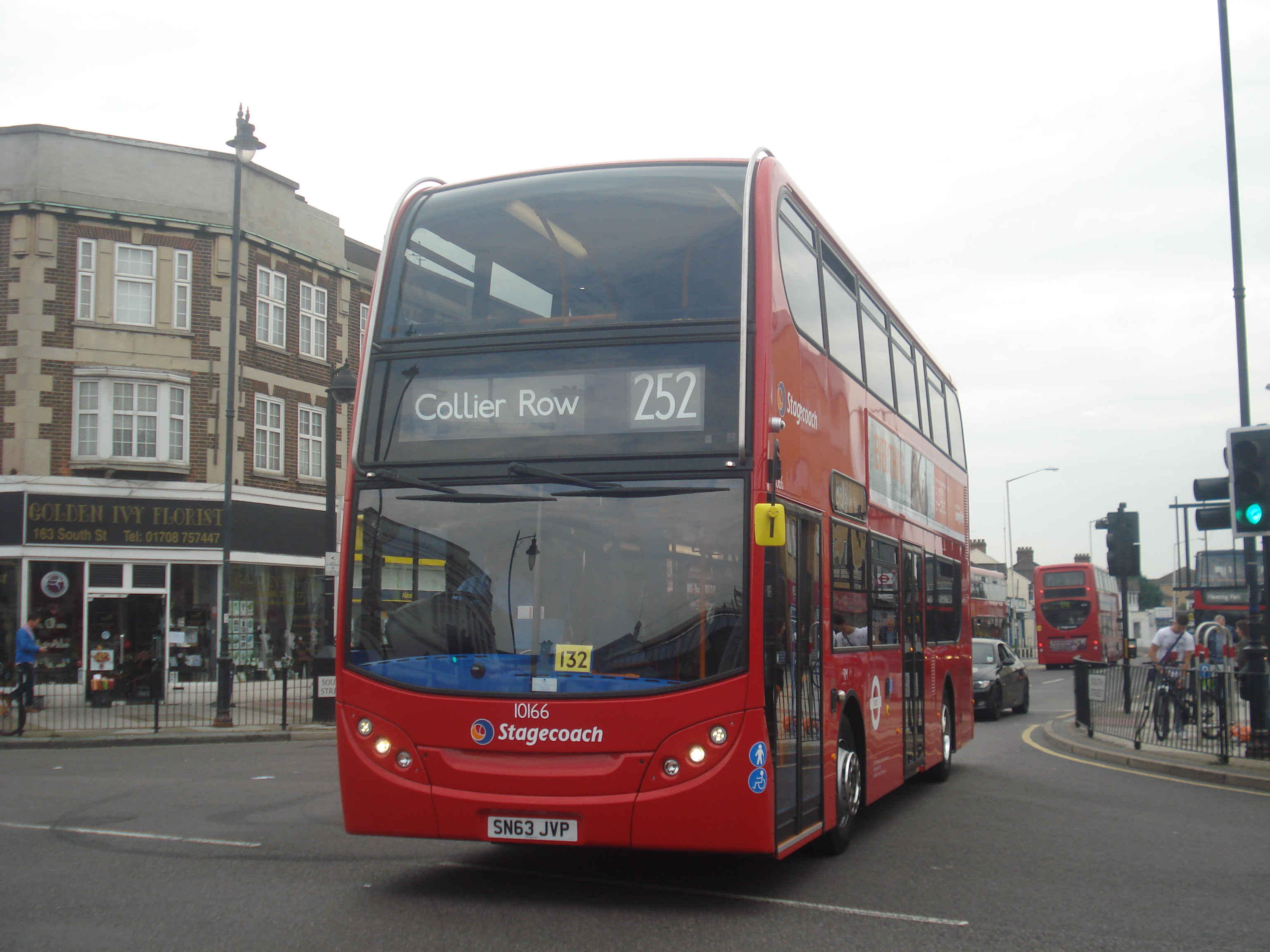 Stagecoach 10166 on Route 252, Romford Station